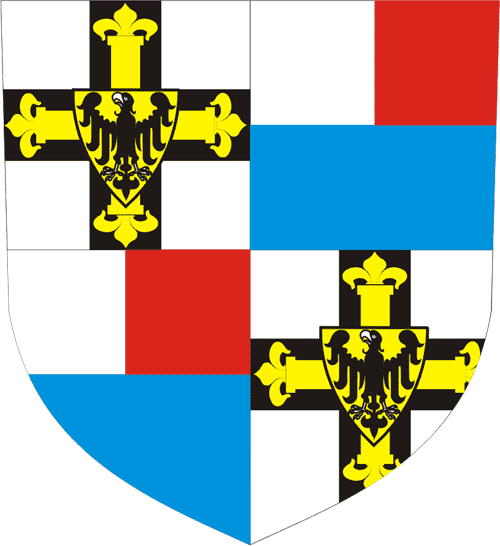 Teutonic Order - Coat of Arms of the Grandmaster Gunther von Wüllersleben